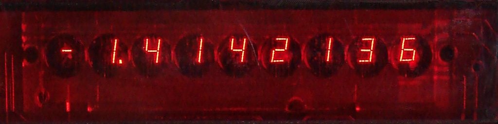 Seven-segment display digits of an original Texas Instruments TI-30 scientific calculator (circa 1979).